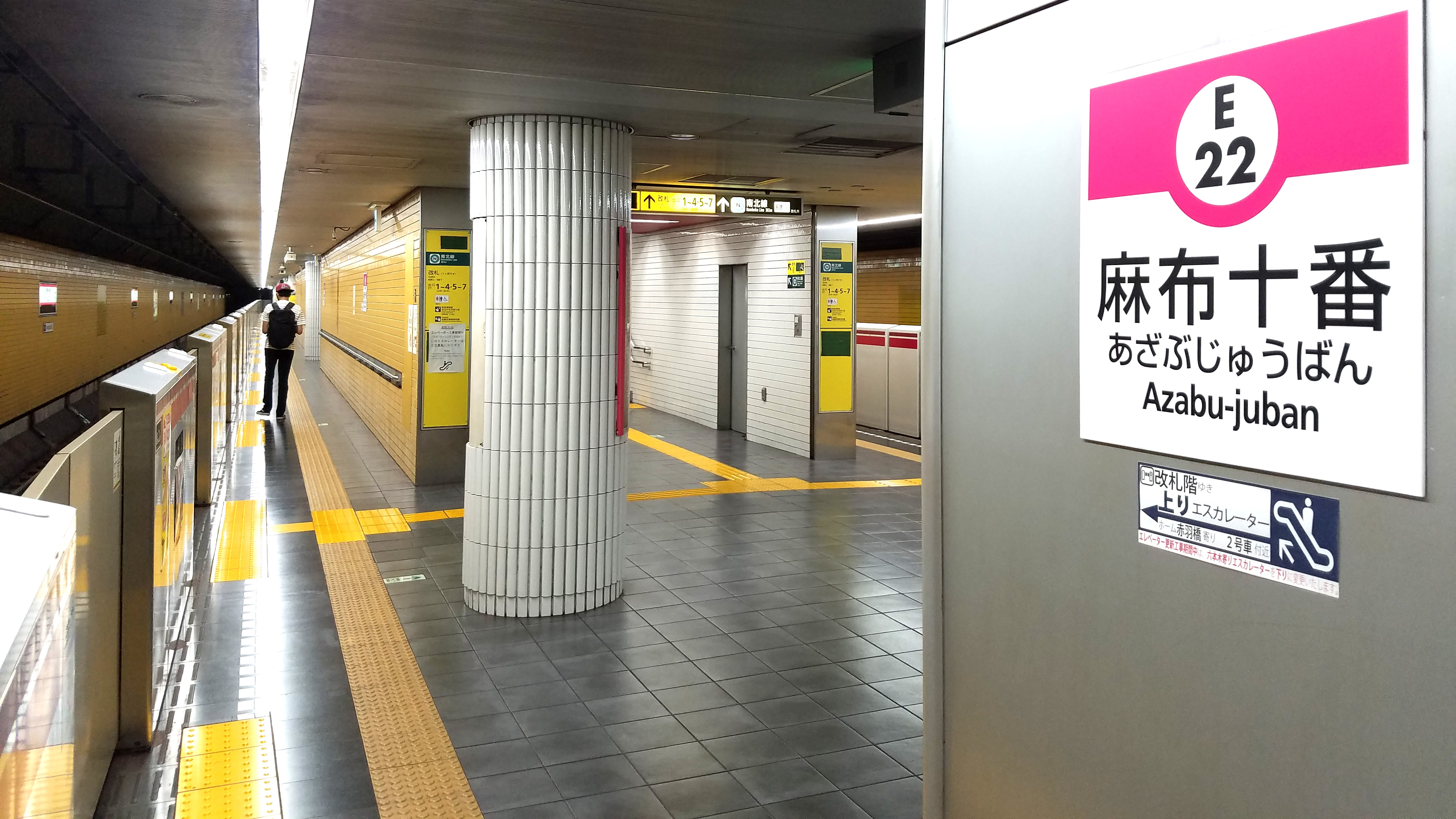 The platform at Azabu-Jūban Station on the Toei Ōedo Line in Minato city, Tokyo, Japan